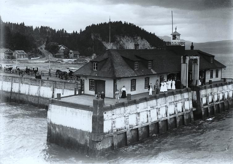 Photograph, Murray Bay wharf, QC, about 1912, Wm. Notman & Son, Silver salts on glass - Gelatin dry plate process - 11 x 16 cm